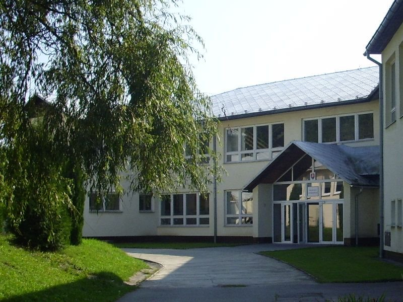 The building of the primary school of Dlha nad Oravou